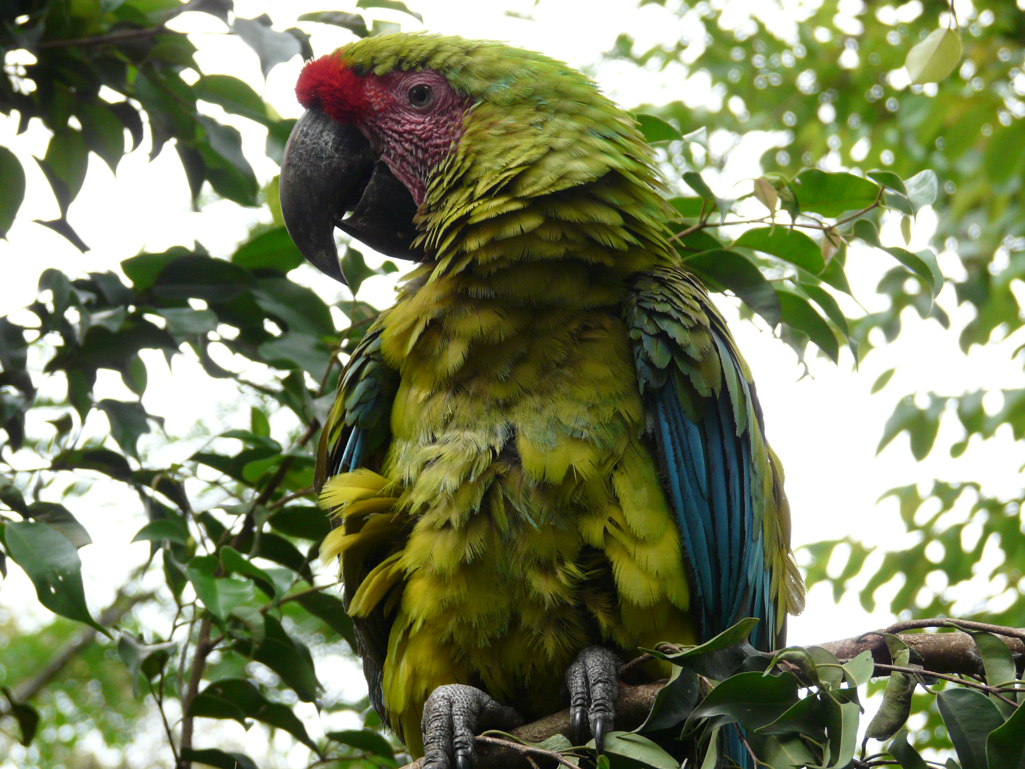 Photography of the Military Macaw (Ara militaris). Photo taken at the Zoo Sta Fe Medellin Colombia